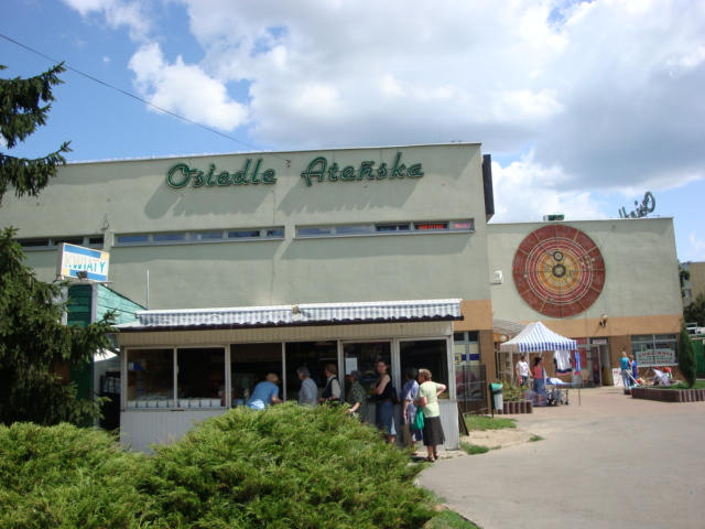 Kopernik Estate in Warsaw, shopping center